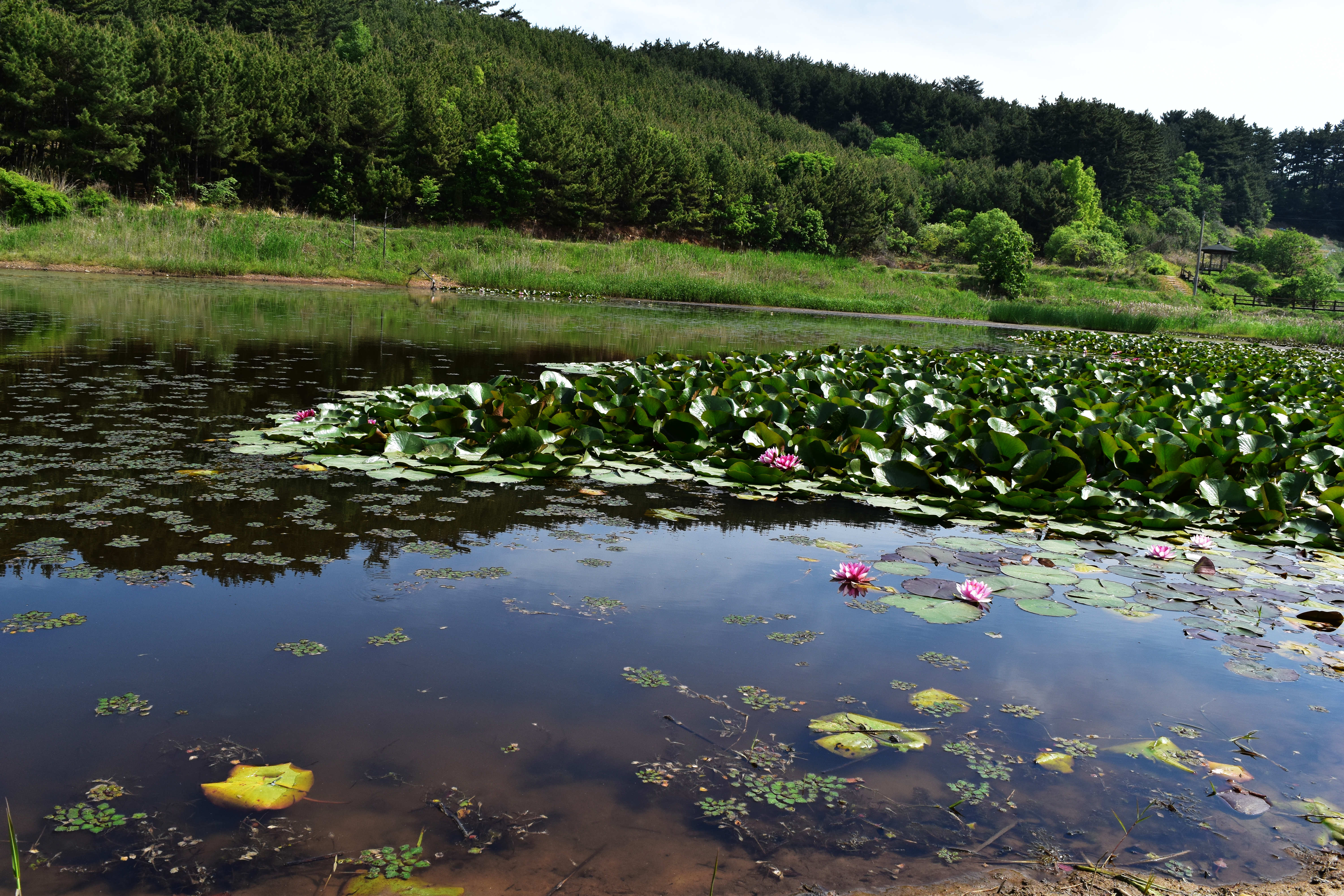 Duwung wetland, a protected area of Ramsar Convention, at Taean-gun, Chungcheongnam-do, South Korea